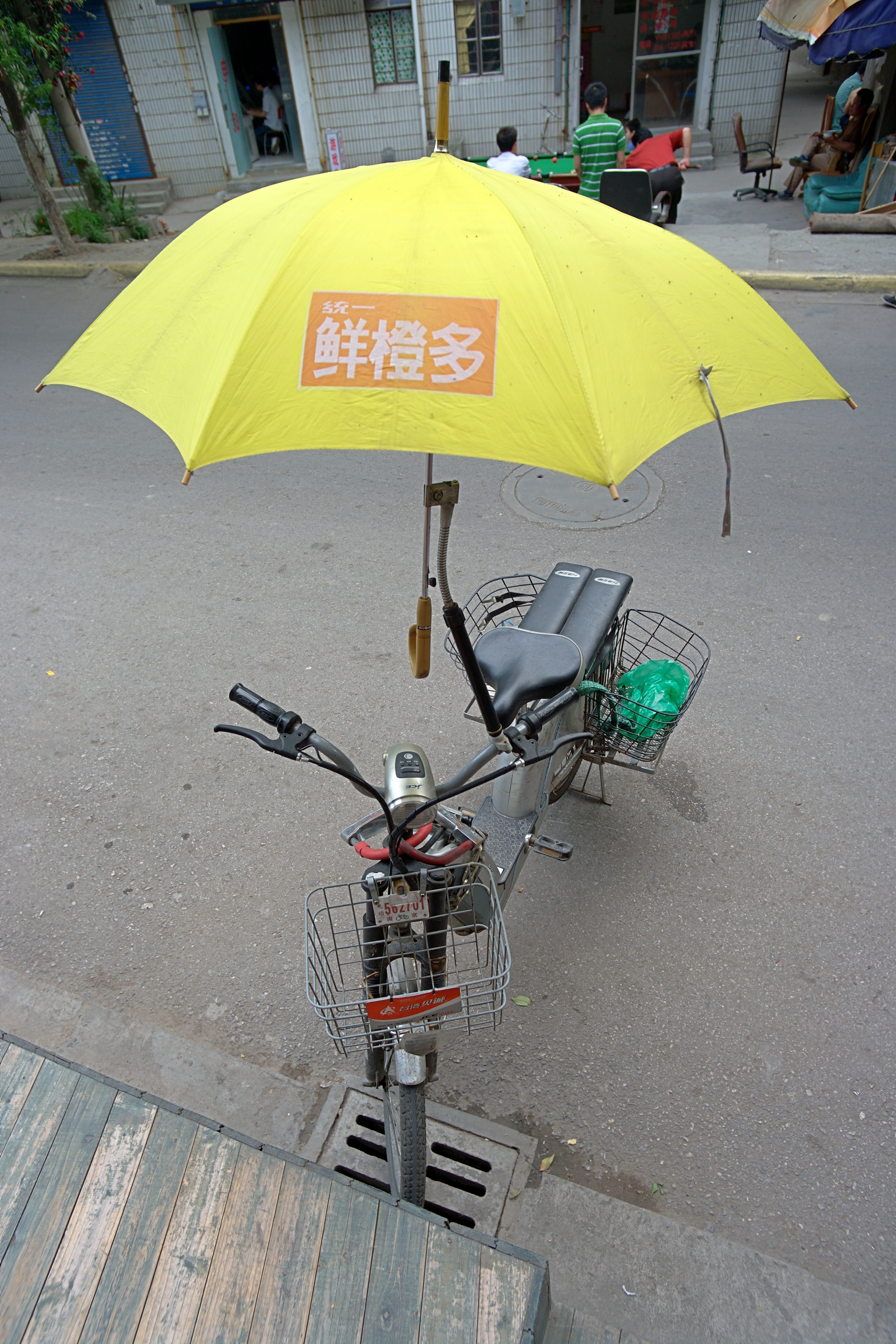 Chinese people don't like the sun. They prefer always to be protected by an Umbrella, even when they are riding a bi-cycle. Nanjing, China.